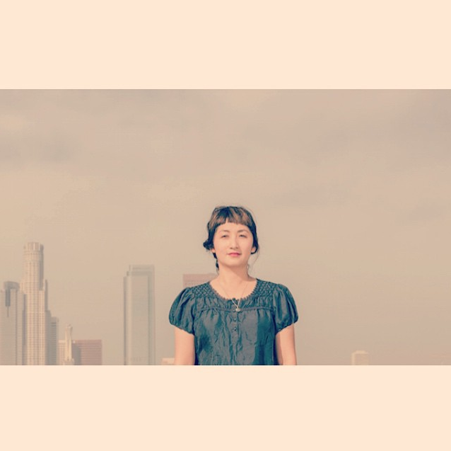 Photo of Thuc Nguyen